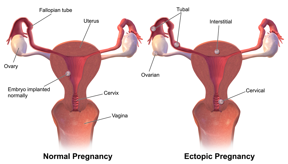 Ectopic Pregnancy. See a full animation of this medical topic.